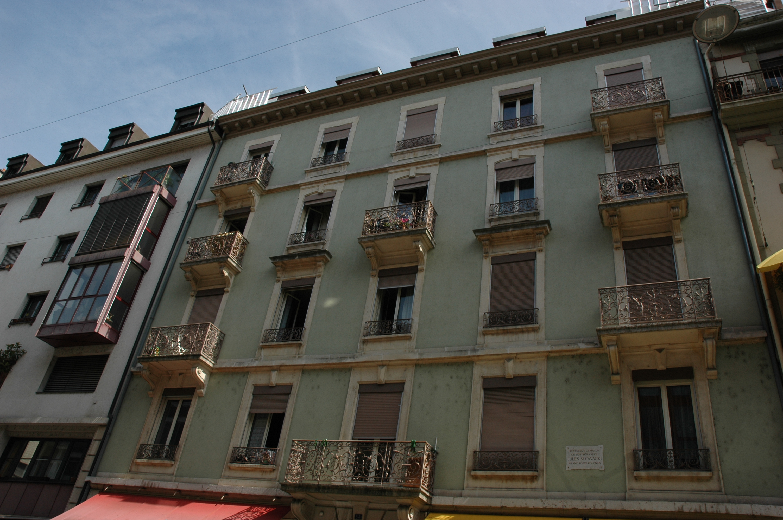 Building in which Juliusz Słowacki lived between 1832-1836 on Rue de Montheux 34 in Geneve.